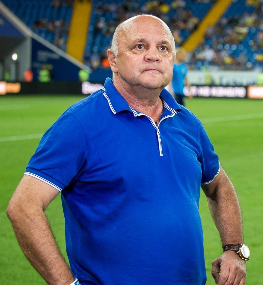 Igor Gamula before the game between FC Rostov and PFC Krylia Sovetov Samara.